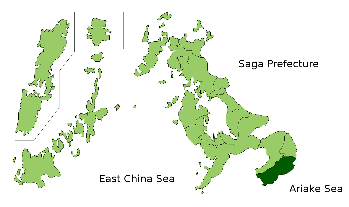 The location of Minamishimabara in Nagasaki Prefectuur, Japan